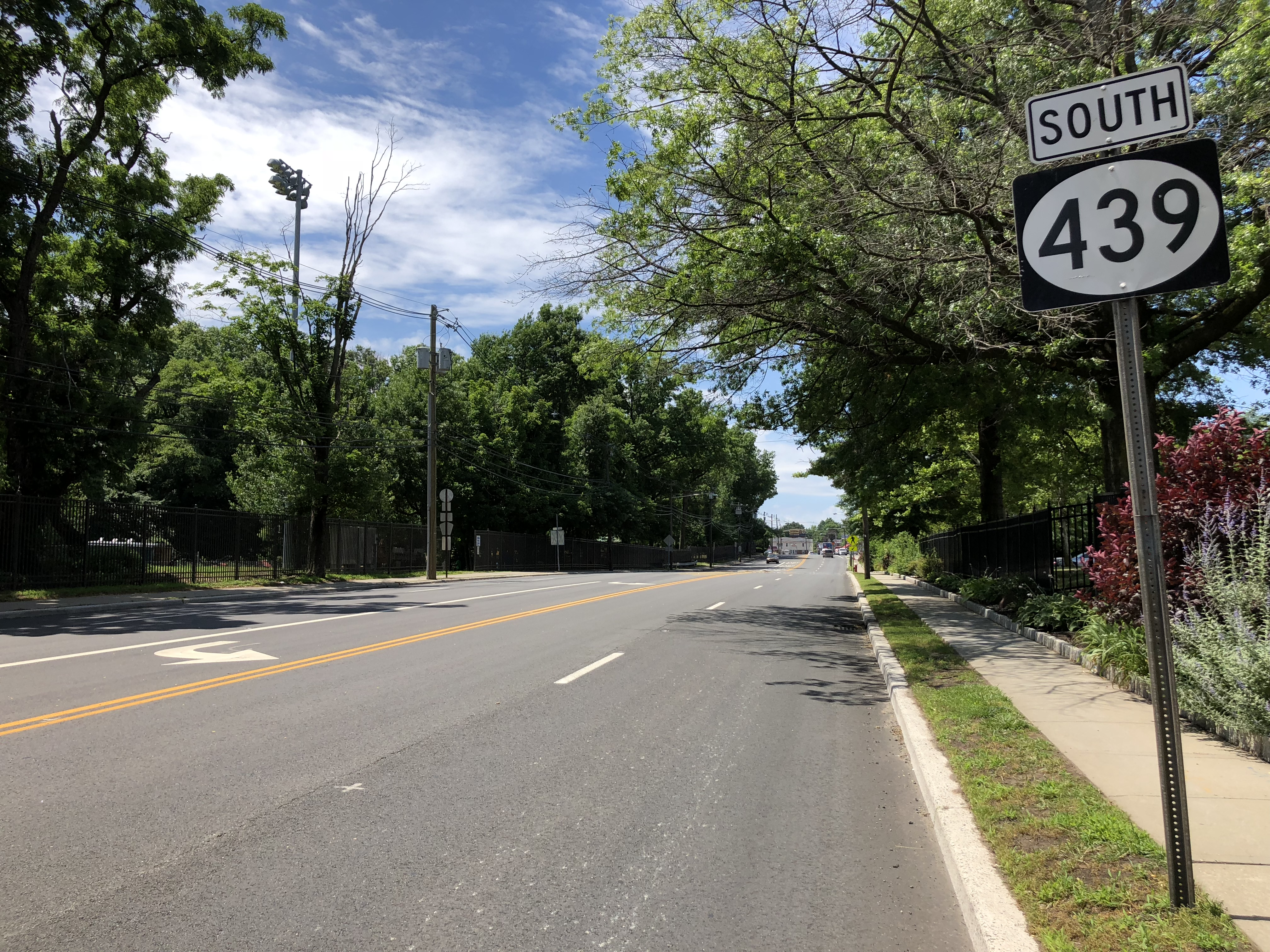 View south along New Jersey State Route 439 (North Avenue) between Morris Avenue (New Jersey State Route 82/Union County Route 629) and Lynmar Way in Union Township, Union County, New Jersey